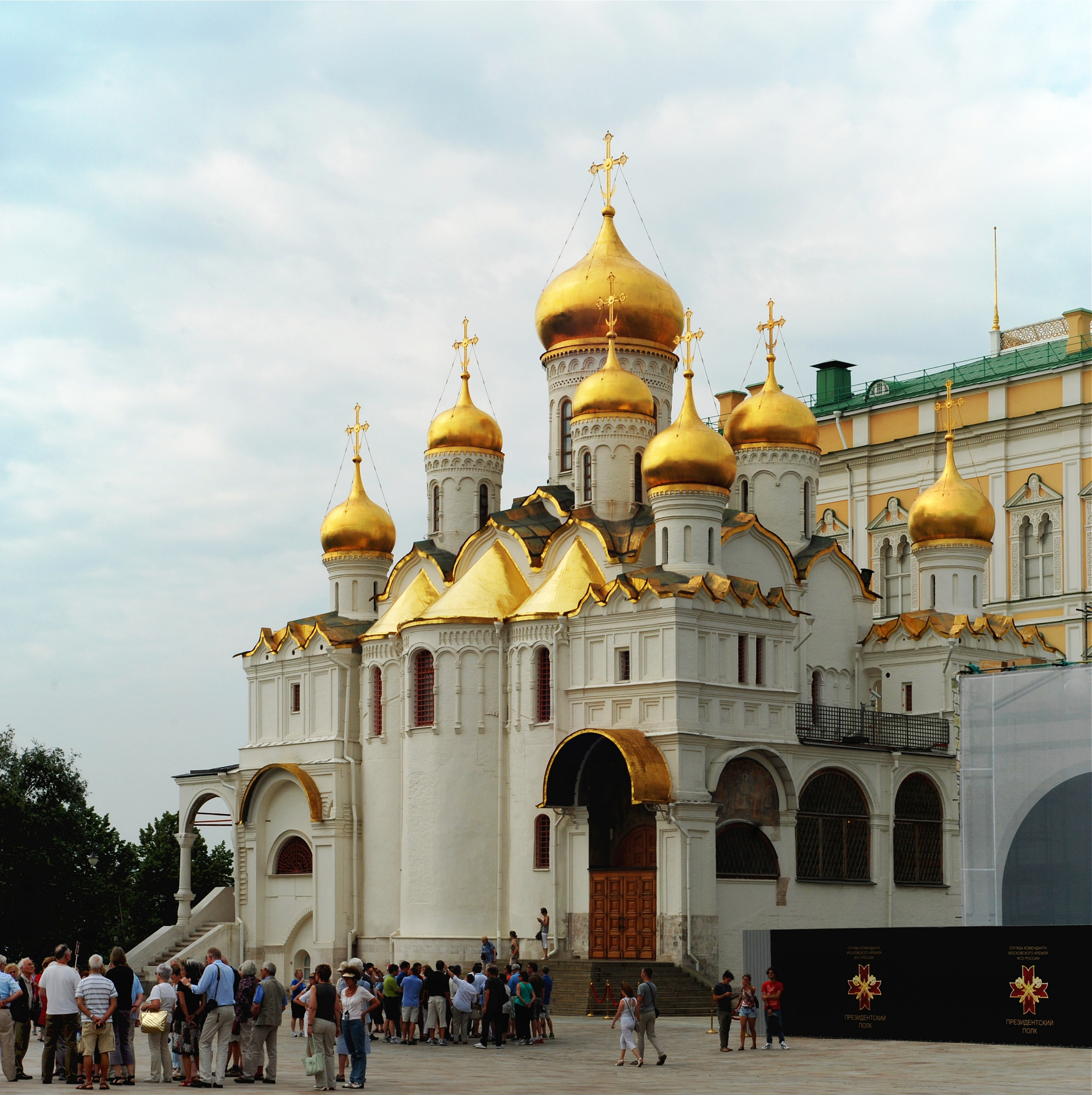 The Annuntiation Cathedral, Kremlin, Moscow